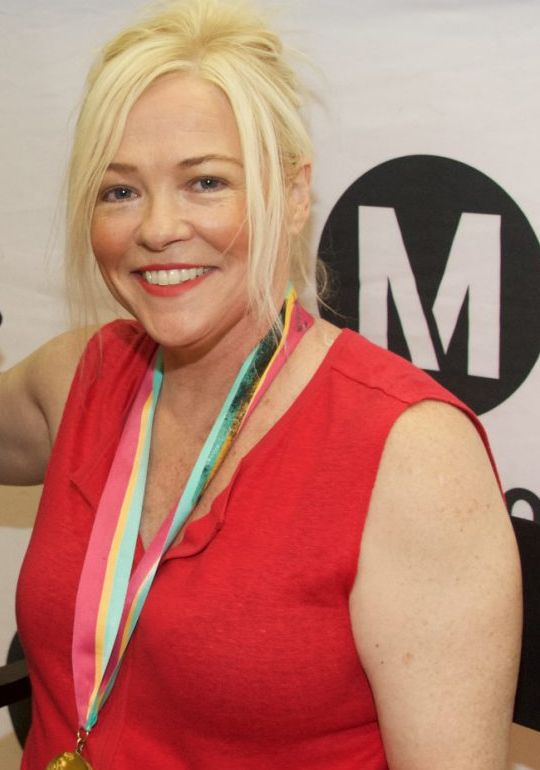 Julianne McNamara, Olympic gymnast, at an appearance for the Los Angeles County Metropolitan Transportation Authority.